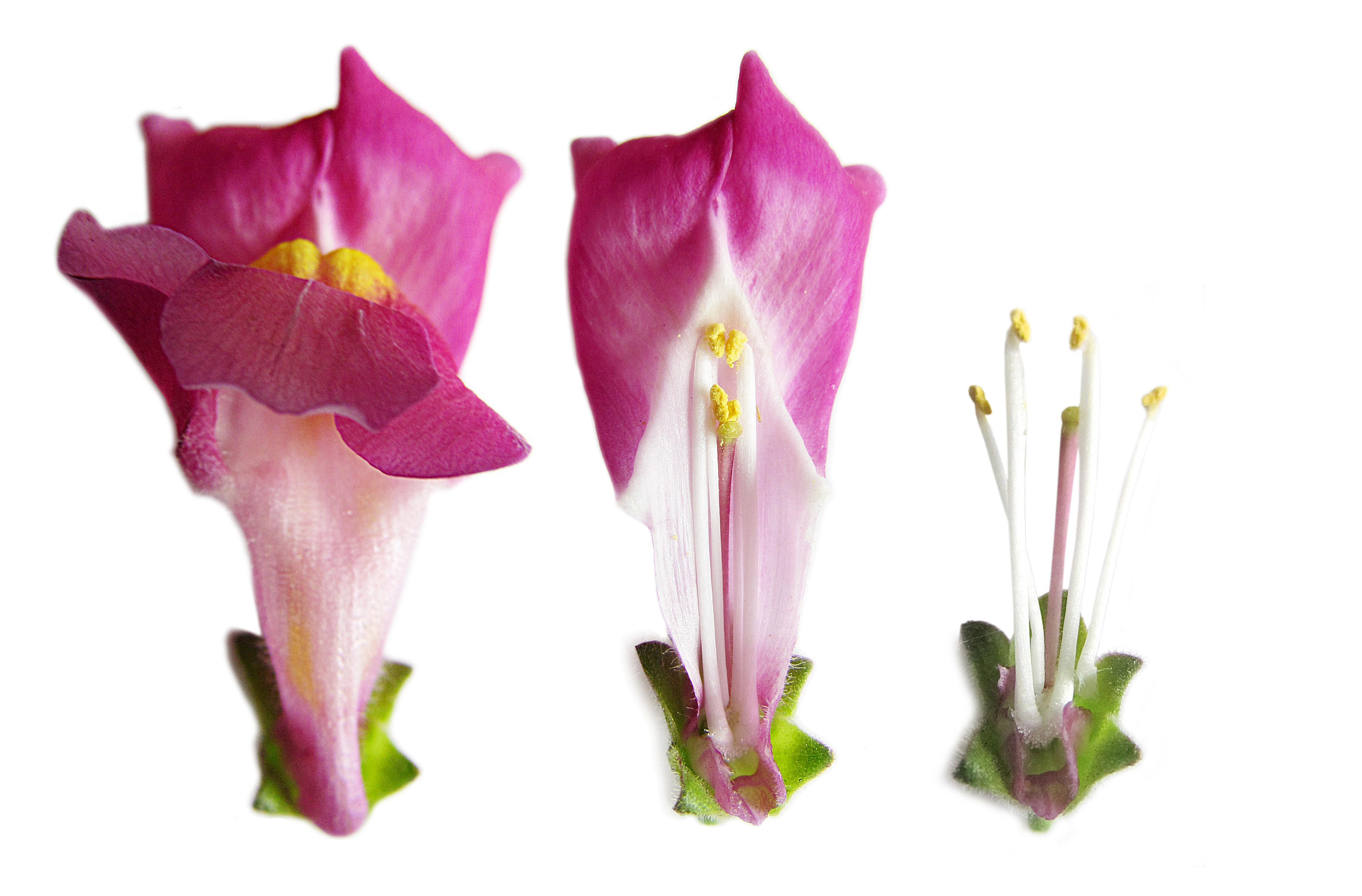 Antirrhinum majus flower